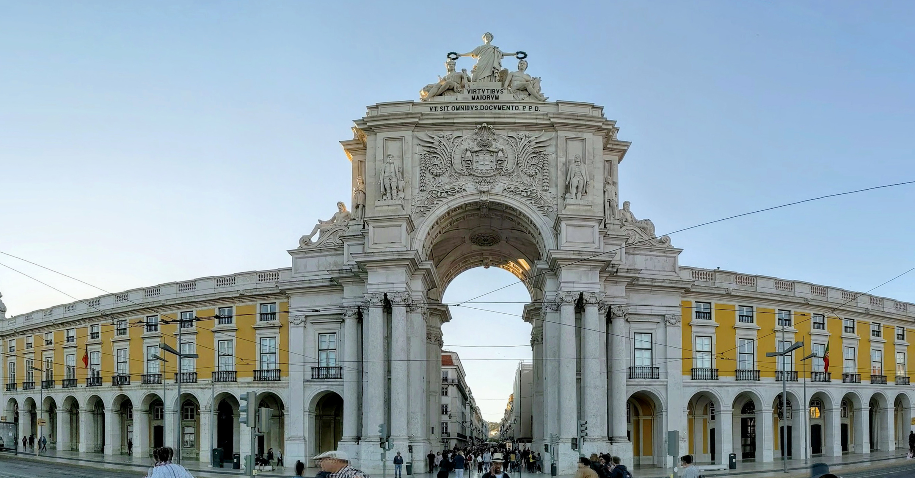 Lisbon Arco Triunfal da Rua Augusta panoramic view from Praça do Comércio